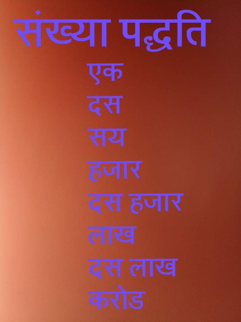 informational file